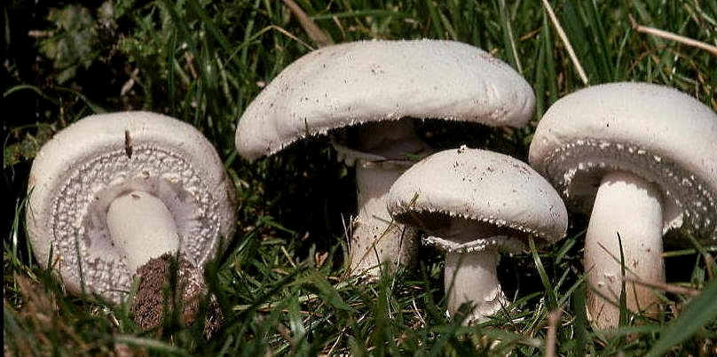 The source of this image is the photographer Frank Gardiner aka Zonda Grattus, who is the sole owner and copyright holder of this photograph and agrees to publish it under the Own Work, Creative Commons Attribution 3.0 License.